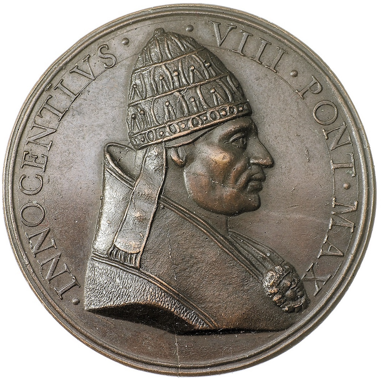 Medal Innocent VIII (1432-1492)